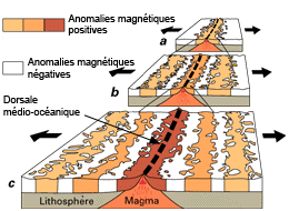 A theoretical model of the formation of magnetic striping. New oceanic crust forming continuously at the crest of the mid-ocean ridge cools and becomes increasingly older as it moves away from the ridge crest with seafloor spreading: * a. the spreading ridge about 5 million years ago. * b. about 2 to 3 million years ago. * c. present-day.